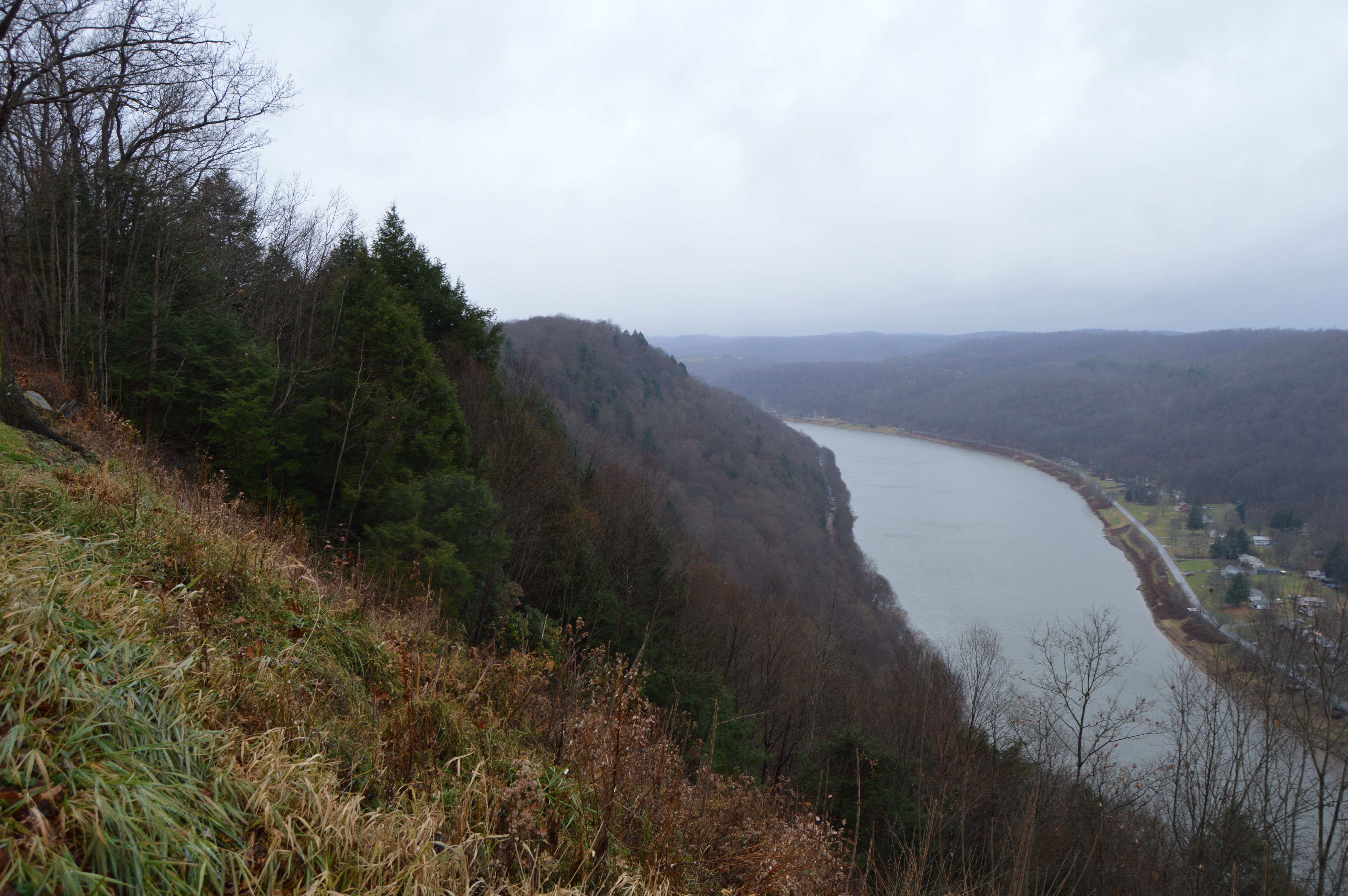 Looking west from the Bradys Bend overlook, located along Pennsylvania Route 68 just east of East Brady, Pennsylvania, United States. The hillside in the foreground is part of Brady Township in Clarion County, sloping down to the Allegheny River. On the other side is a small portion of Bradys Bend Township in Armstrong County.